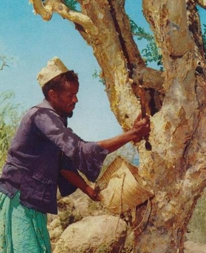 Somali man collecting incense